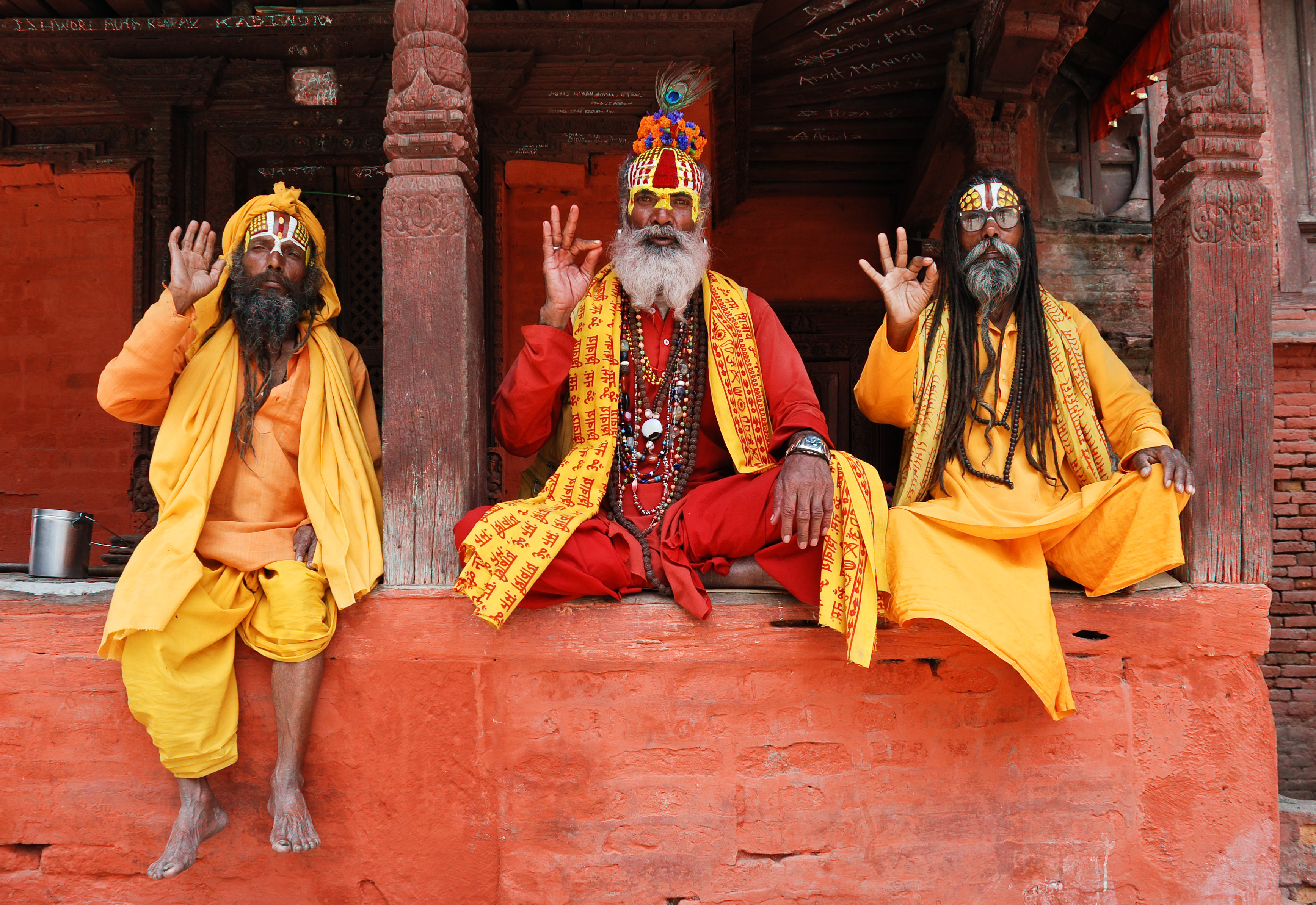 Three alleged saddhus (Hindu holy men) sitting on the Vishnu Temple of Kathmandu's Durbar Square, Nepal, performing the vitarka mudrā. Notice that they may not be saddhus in the strict sense of the word.